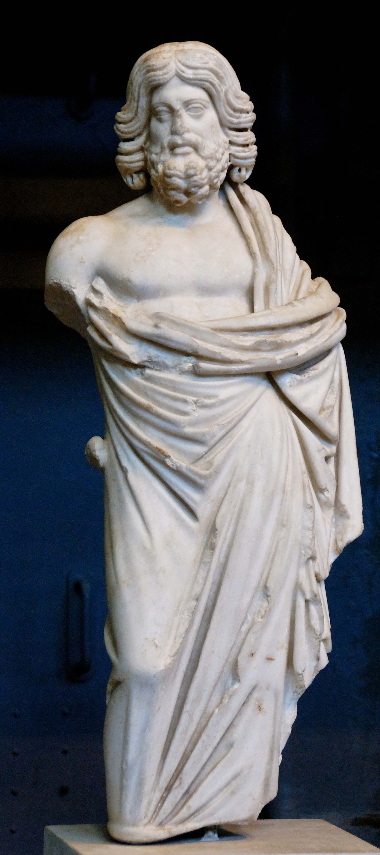 Statuette of Asklepios. Greek insular marble, small-scale copy after a 5th century BC original attributed to Phidias or Alkamenes. From the Via S. Maria dei Monti, Esquiline Hill, 1888.